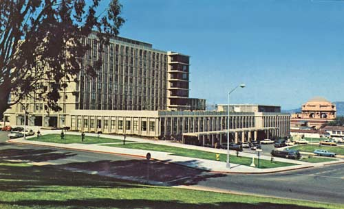 Postcard showing the new Letterman Army Medical Center (Part of the Presidio), San Francisco, California, USA in the 1970s.